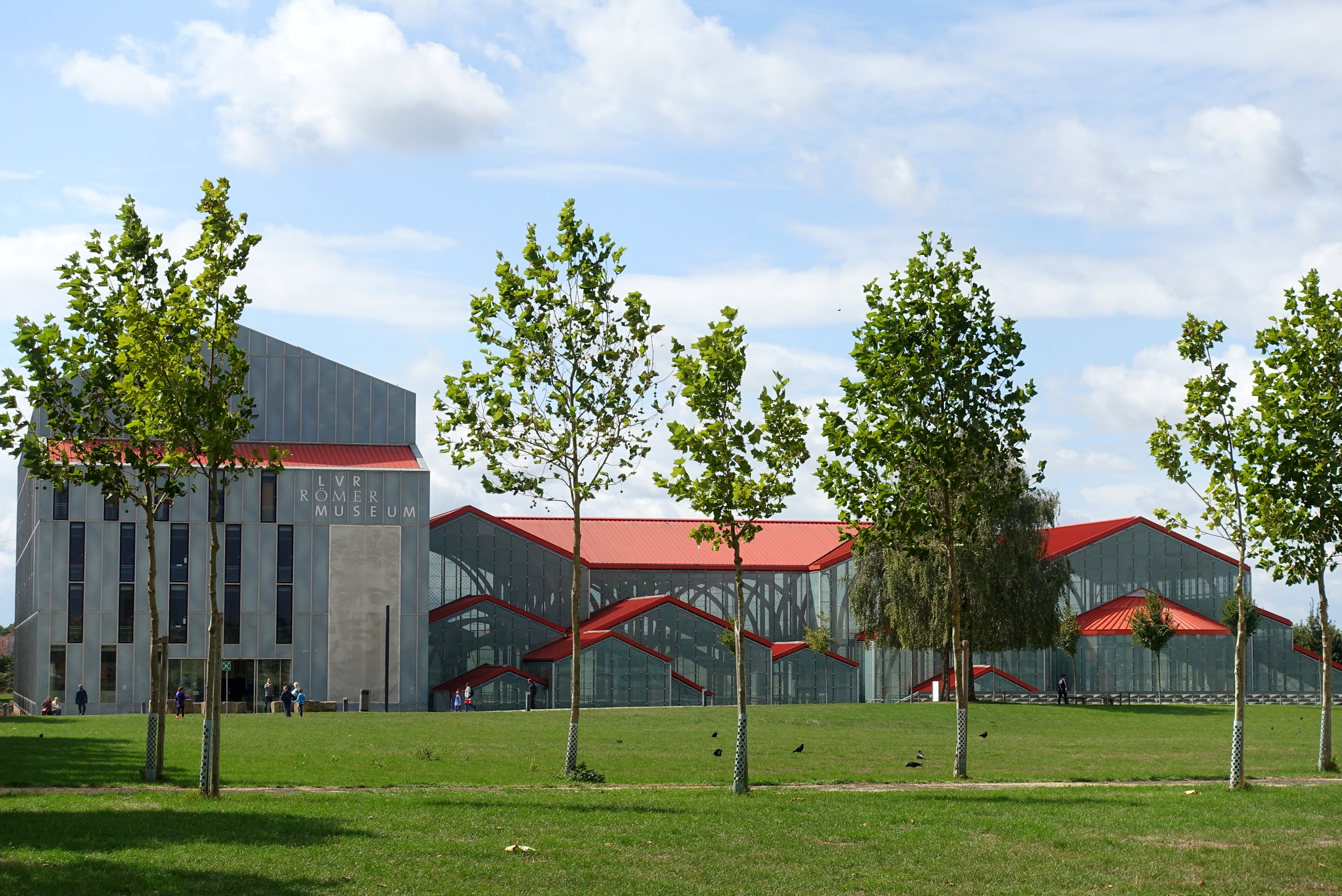 Archaeological Park Xanten (Germany). GLAM on Tour, Wikimedia Deutschland.